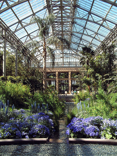 Photo, taken by Katy Harris, of East Conservatory of Longwood Gardens, March 2006, shortly after its reopening.